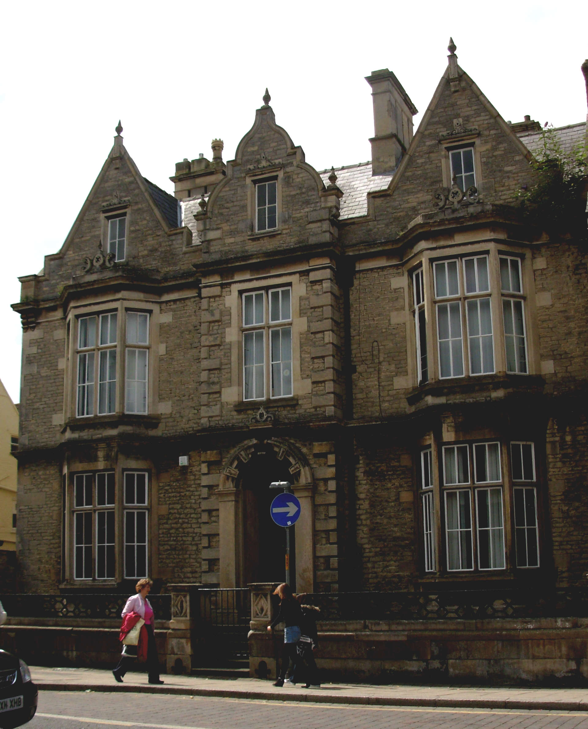 No. 62 Southgate, Sleaford, Lincolnshire, built c. 1850 by the local architect Charles Kirk. The house is now part of Kesteven and Sleaford High School. Photographed July 2007.